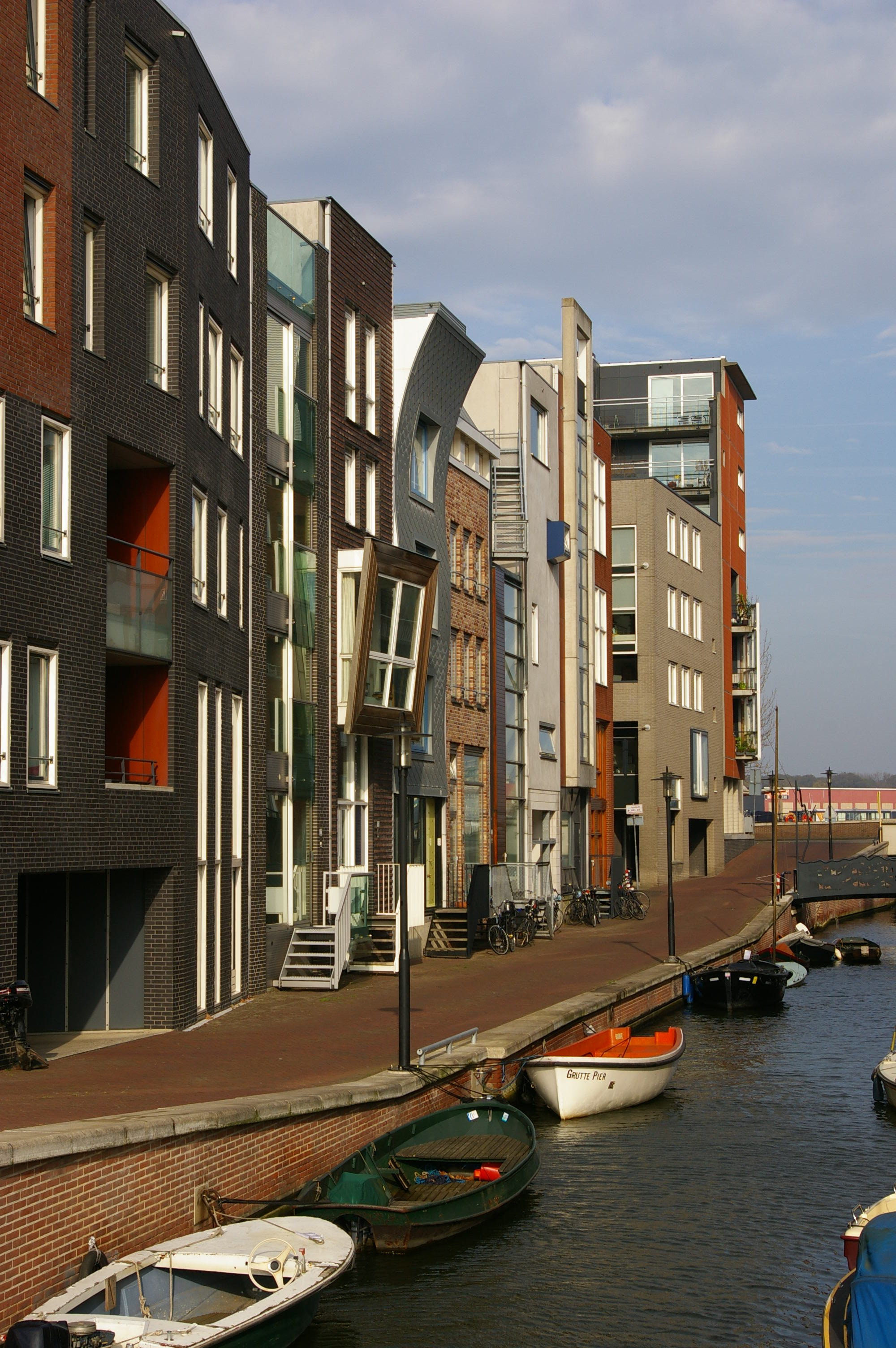 Postmodern architecture on the Lamonggracht, Java-eiland, Amsterdam.